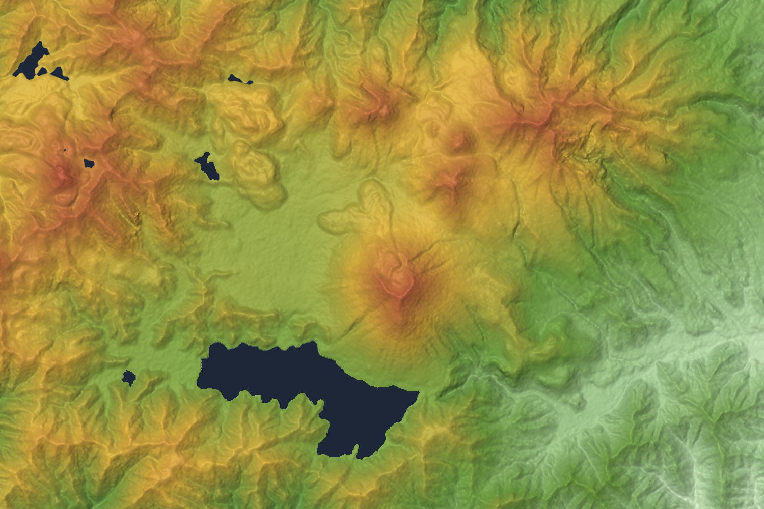 Nantai Volcano and Lake Chuzenji in Tochigi Prefecture, Honshu, Japan.